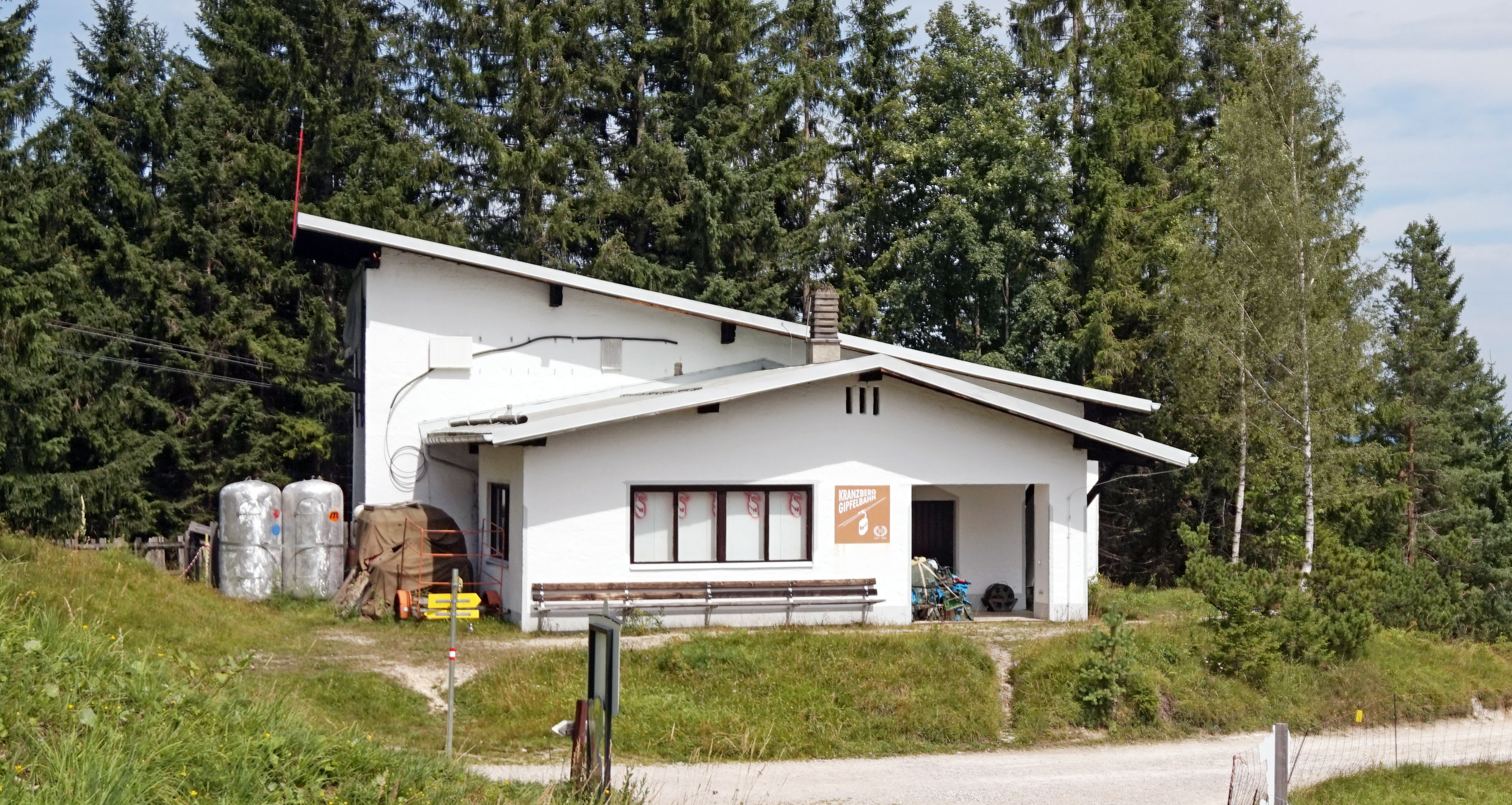 Kranzberg Gipfelbahn, Mittenwald, Germany.This photograph was taken with a Sony ILCE-5000